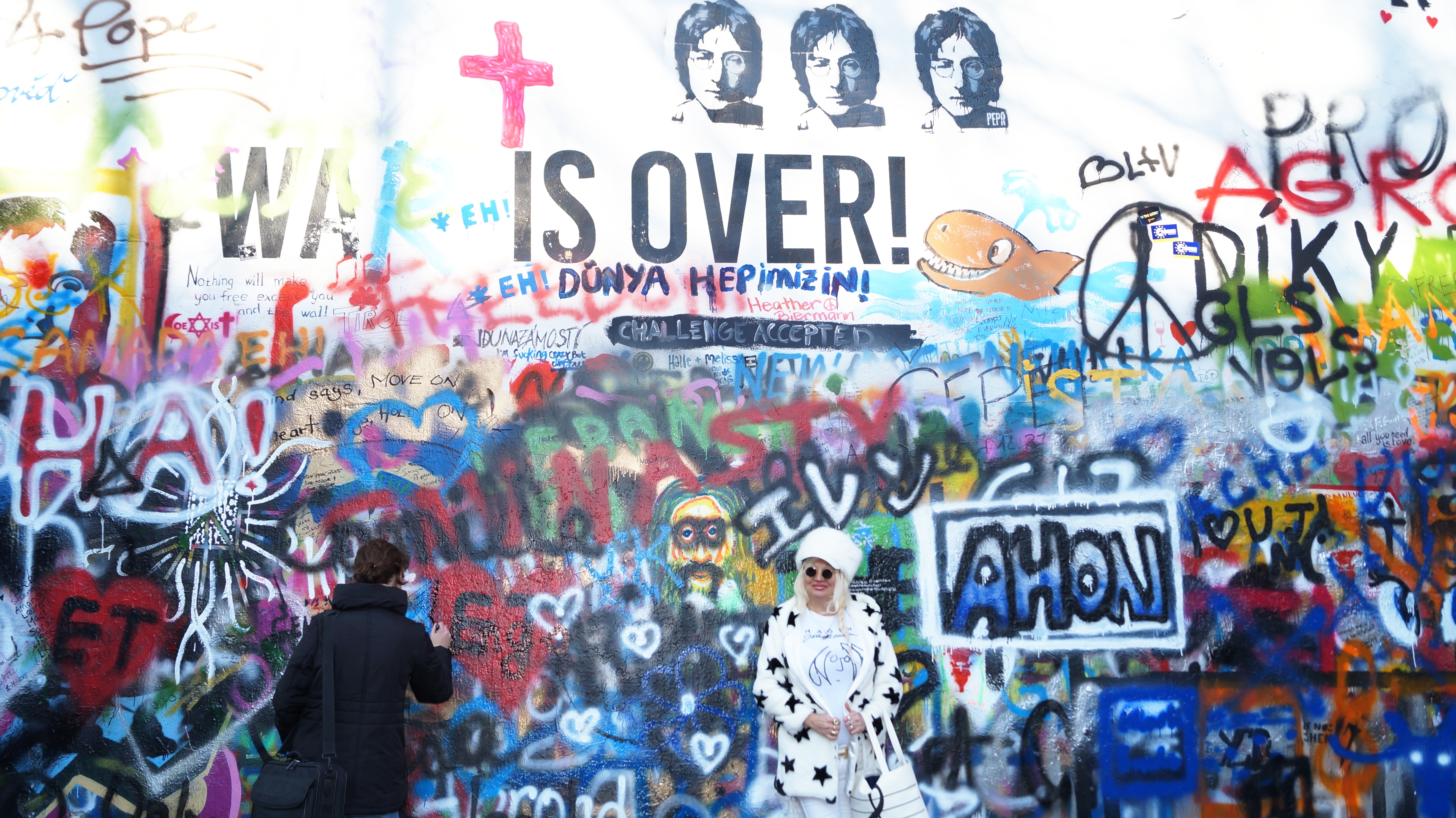 Photo by: World Wide Wilson